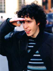 Description: Jeremiah Duggan, a British student who died on March 27, 2003, while attending a LaRouche movement cadre school in Germany. Source: Justice for Jeremiah Copyright: The copyright holder, his mother Erica Duggan, has released the image under a Creative Commons Attribution licence. E-mail to permissions.